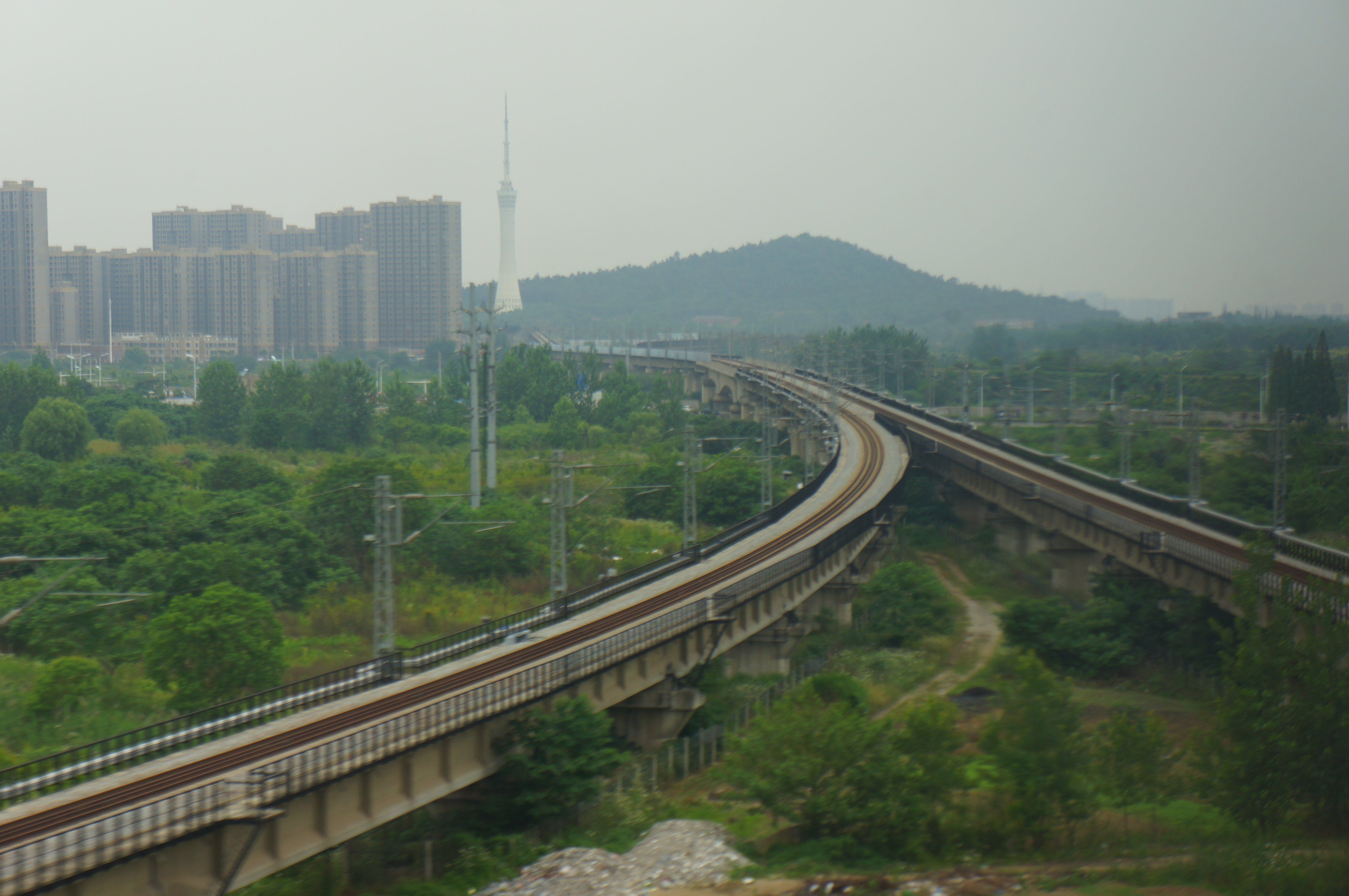 201606 Bengbu Connector Line